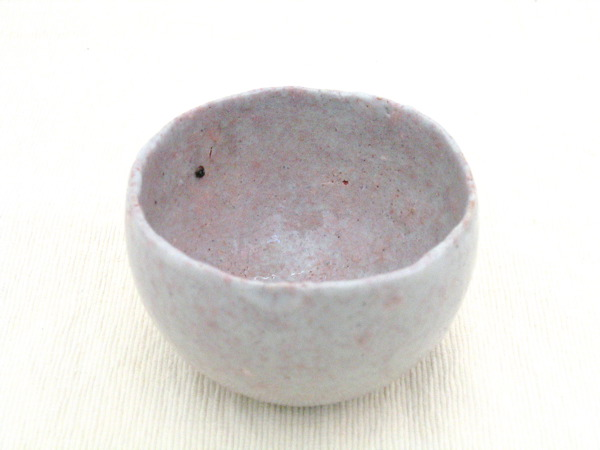 Contemporary wabi-sabi tea bowl